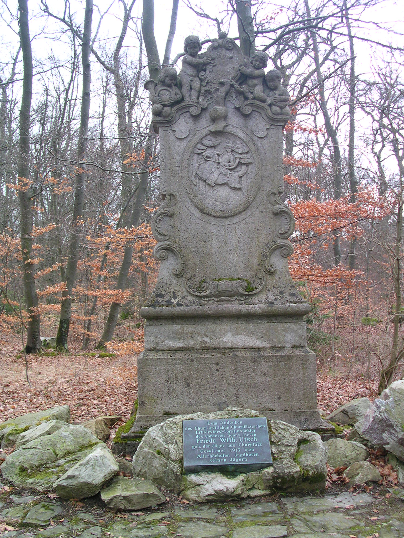 memorial for Friedrich Wilhelm Utsch